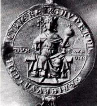 seal of Conradin